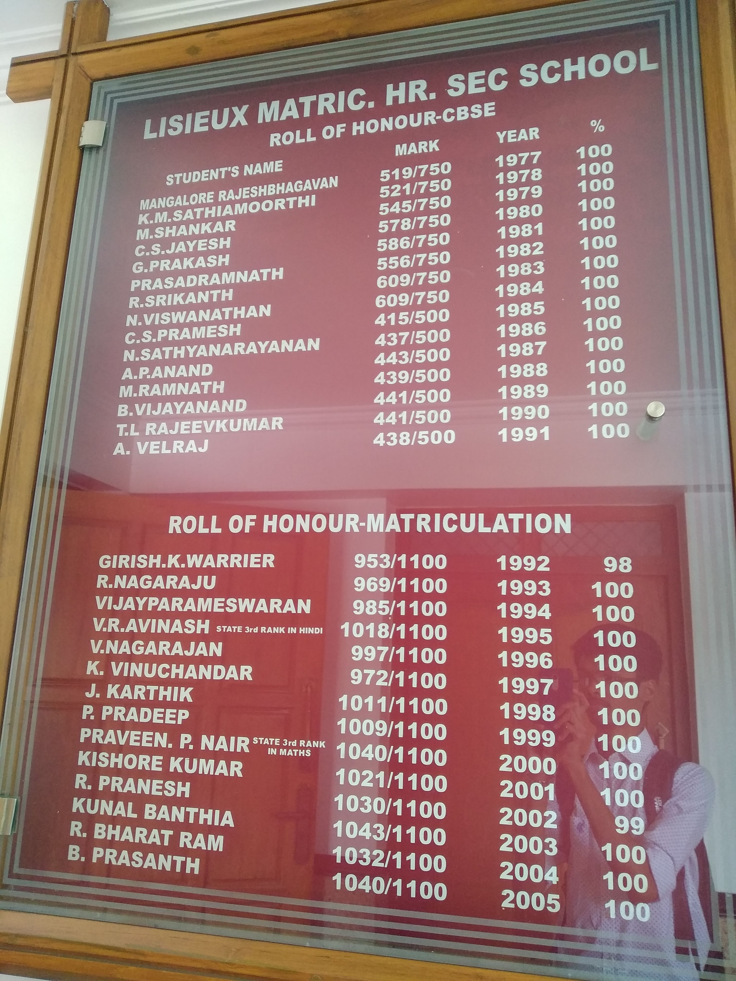 The Roll of Honour as displayed in the administrative block